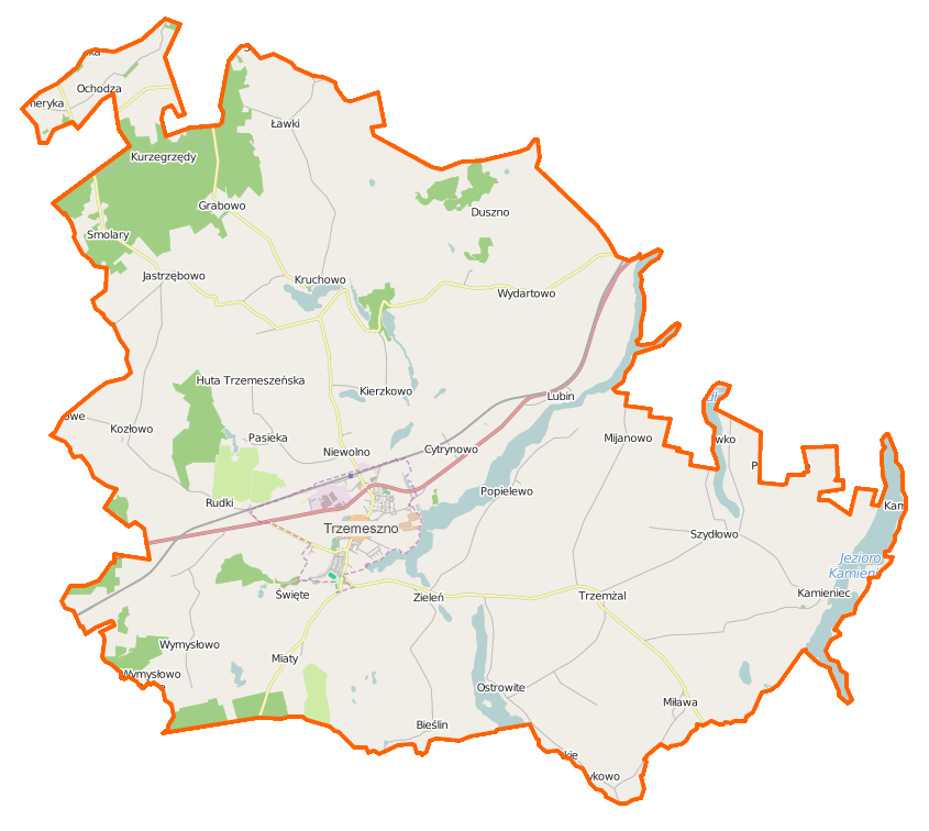 Map of Gmina Trzemeszno, Poland This map of Trzemeszno (gmina) was created from OpenStreetMap project data, collected by the community. This map may be incomplete, and may contain errors. Don't rely solely on it for navigation. Border coordinates52.660117.7089←↕→17.999452.5022